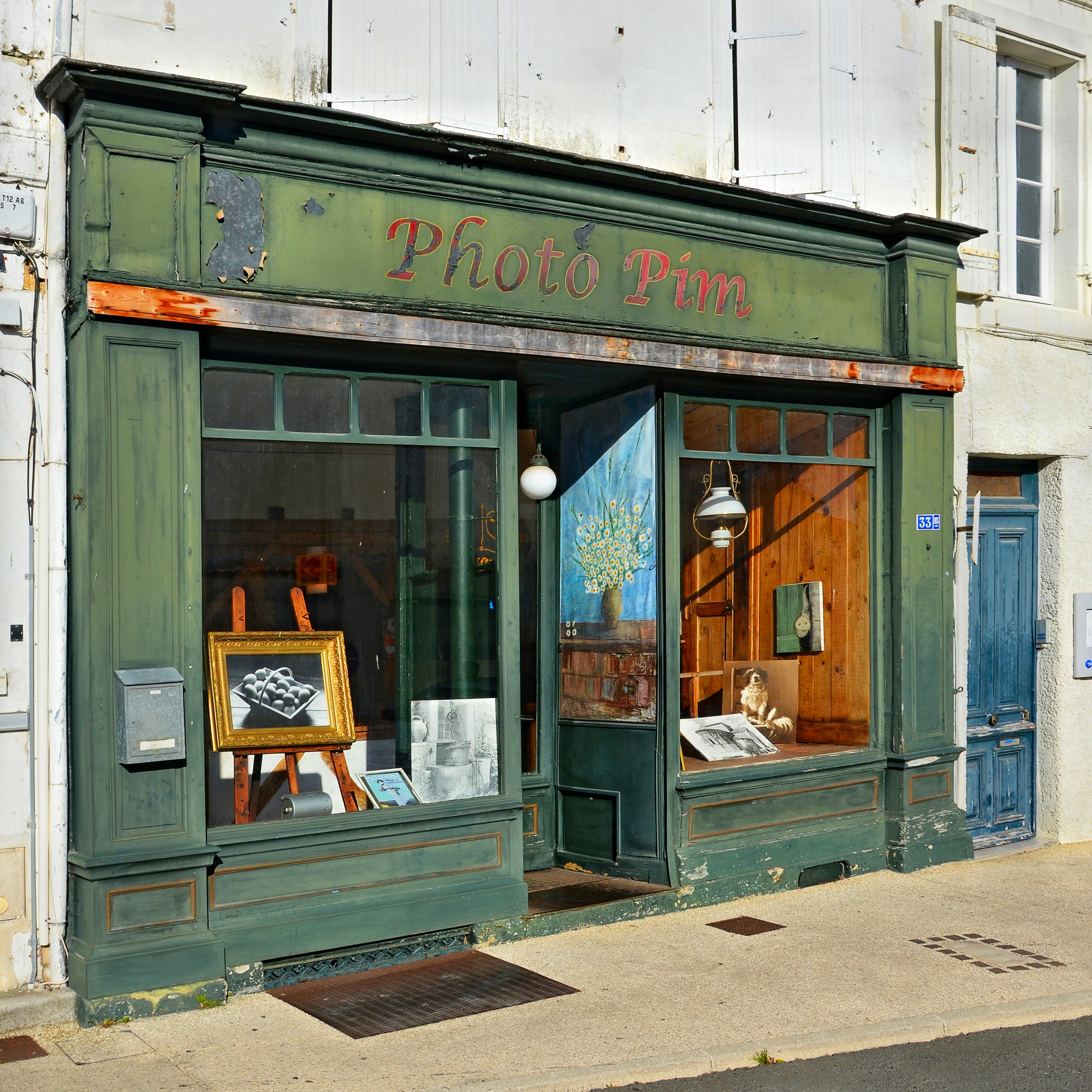 Old traditional photographer's shop, Cozes Charente-Martitime, France.